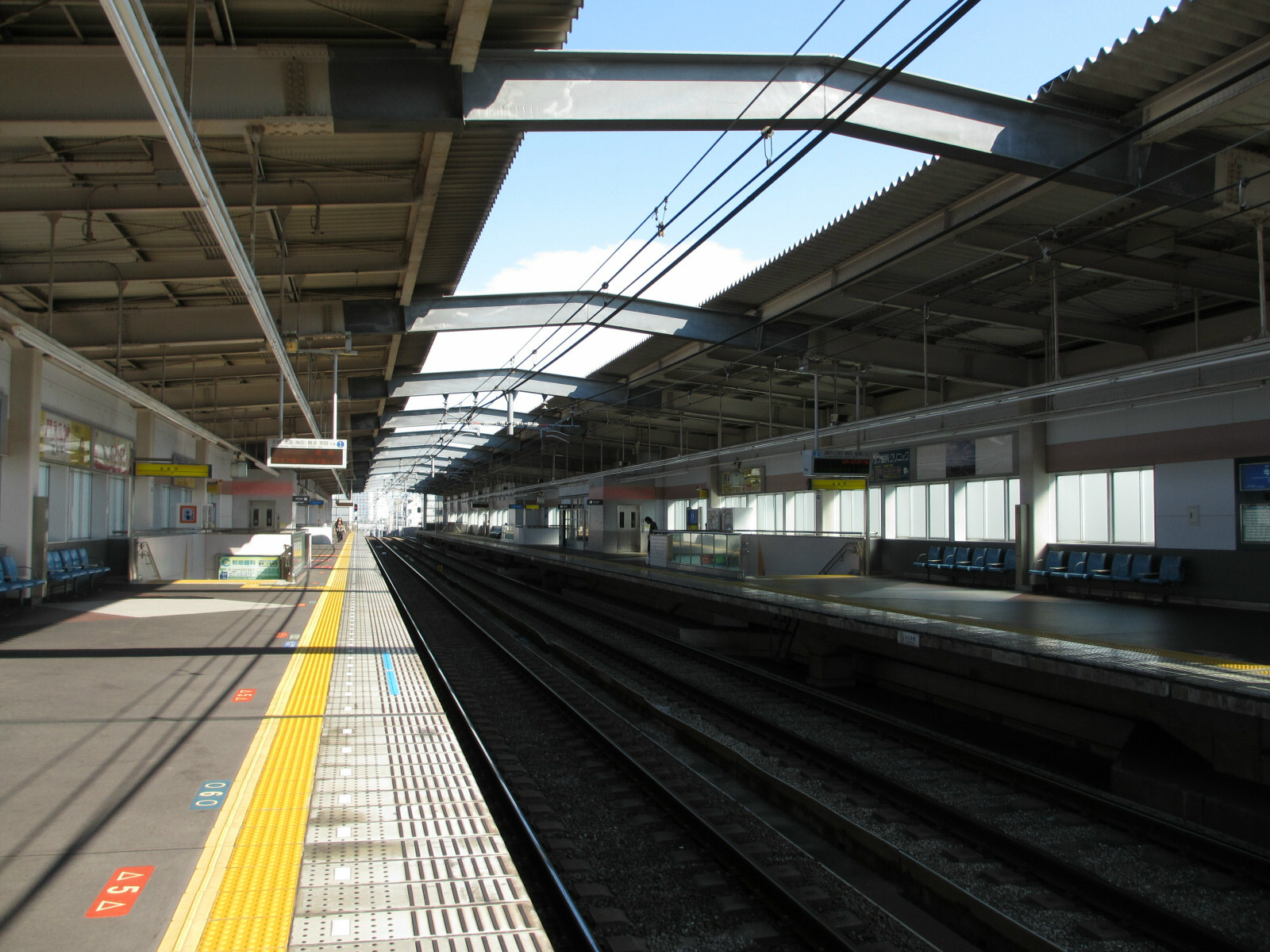 Hanshin Imazu Station platform